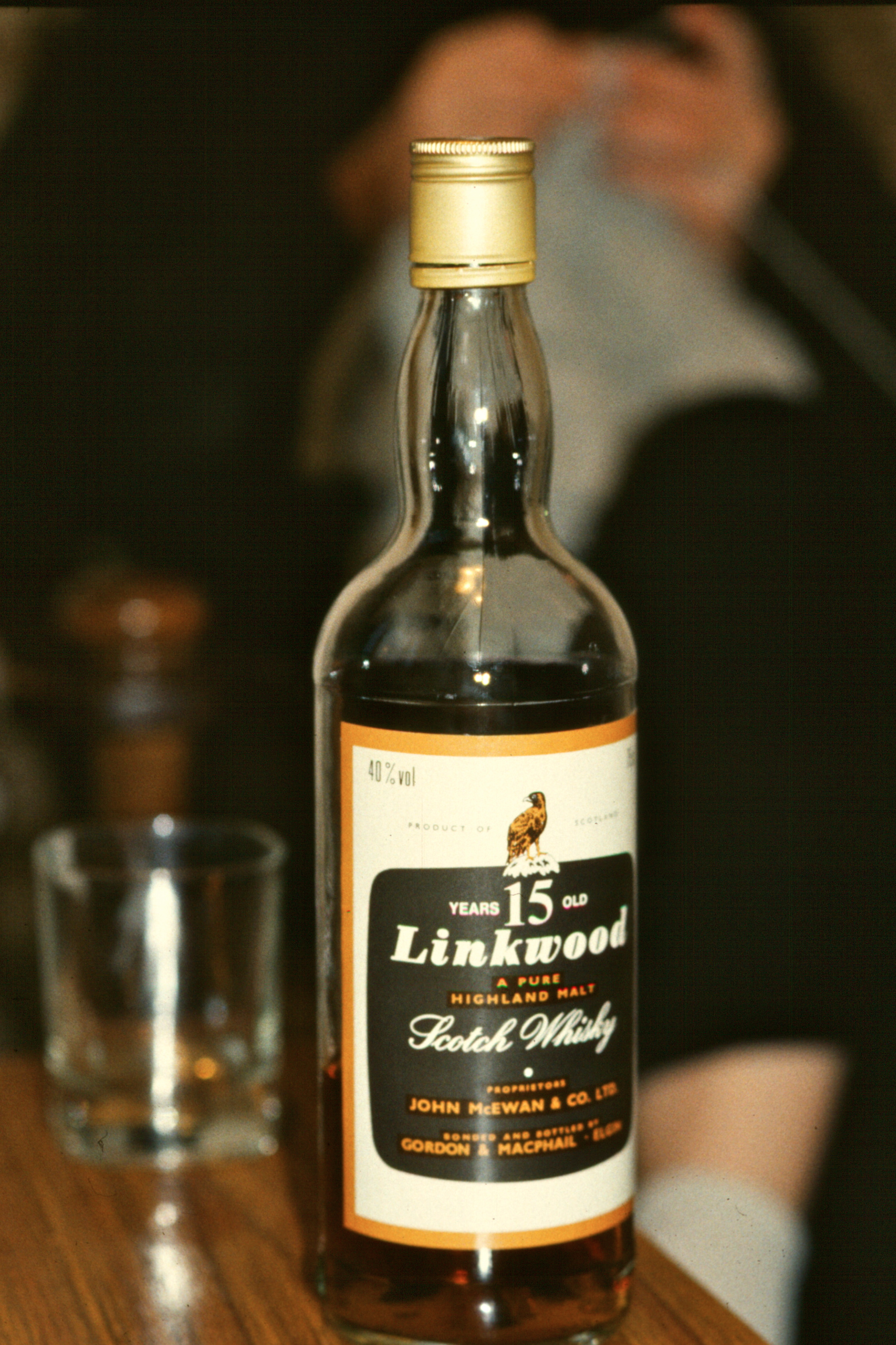 Bottle of Linkwood Single Malt Whisky